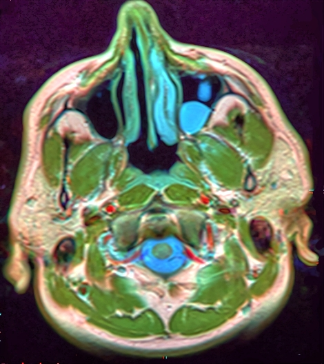 False color MRI, Retention cyst of the maxillary sinus